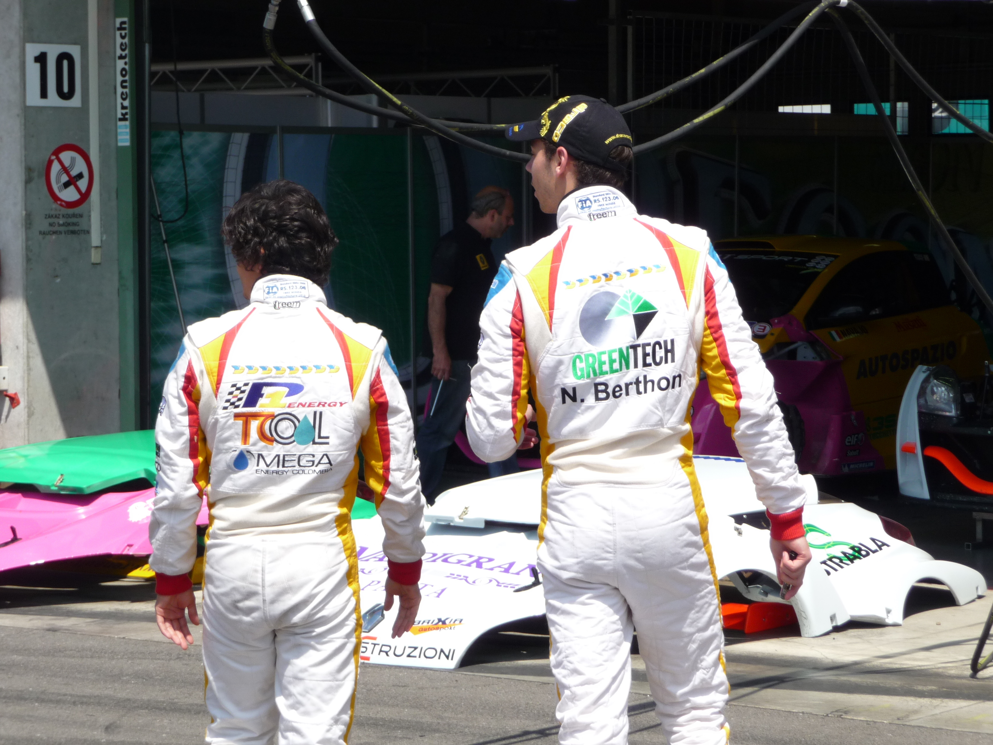 Nathanaël Berthon and Omar Leal, 2010 Brno World Series by Renault -10 -5 -3 -2 ◄ ► +2 +3 +5 +10